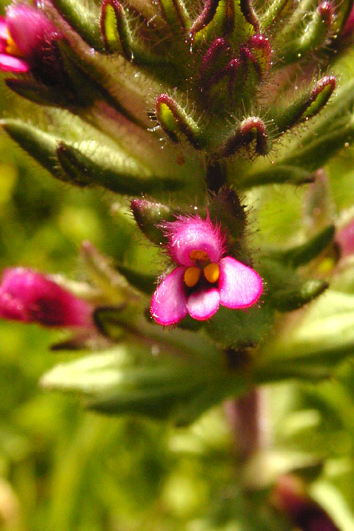 Parentucellia latifolia at Lake Nicasio (Marin County, California, US)